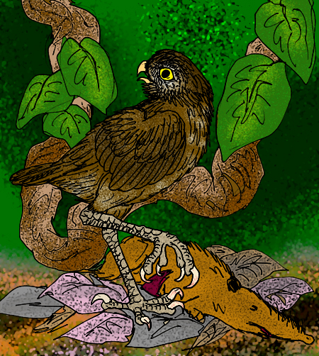 Reconstruction of the Giant Ground Owl, Ornimegalonyx oteroi, of Pleistocene Cuba, with the carcass of a large solenodon.